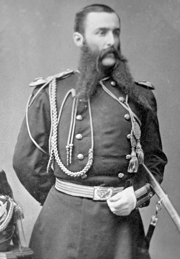 William W. Cooke, in uniform.